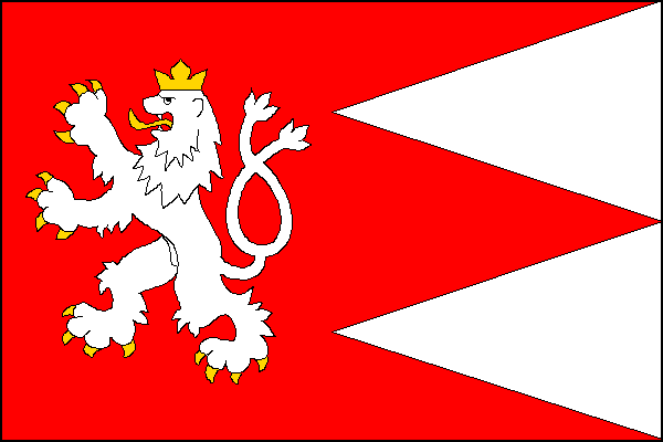 Municipal flag of Kynšperk nad Ohří town, Sokolov District, Czech Republic.